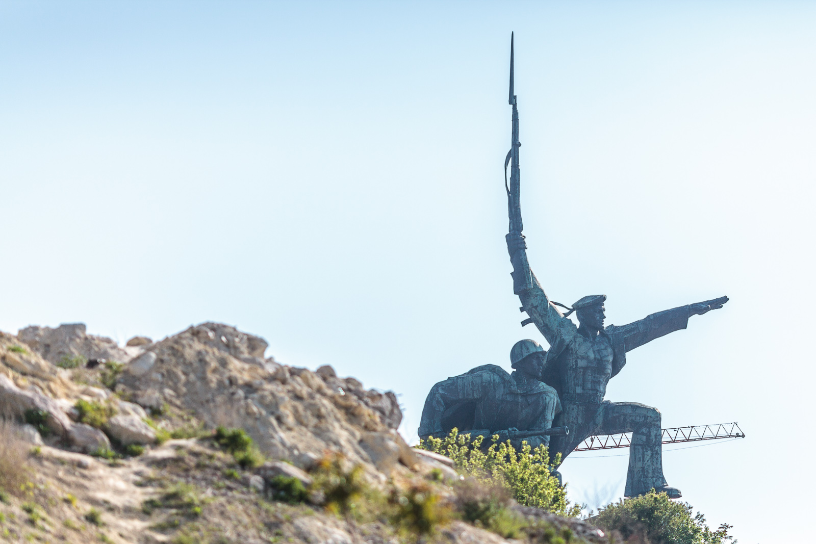 Sevastopol, Crimea, Ukraine